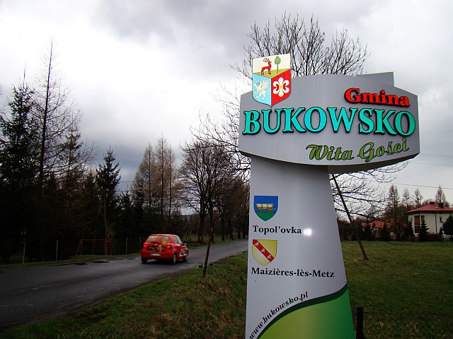 Gmina Bukowsko